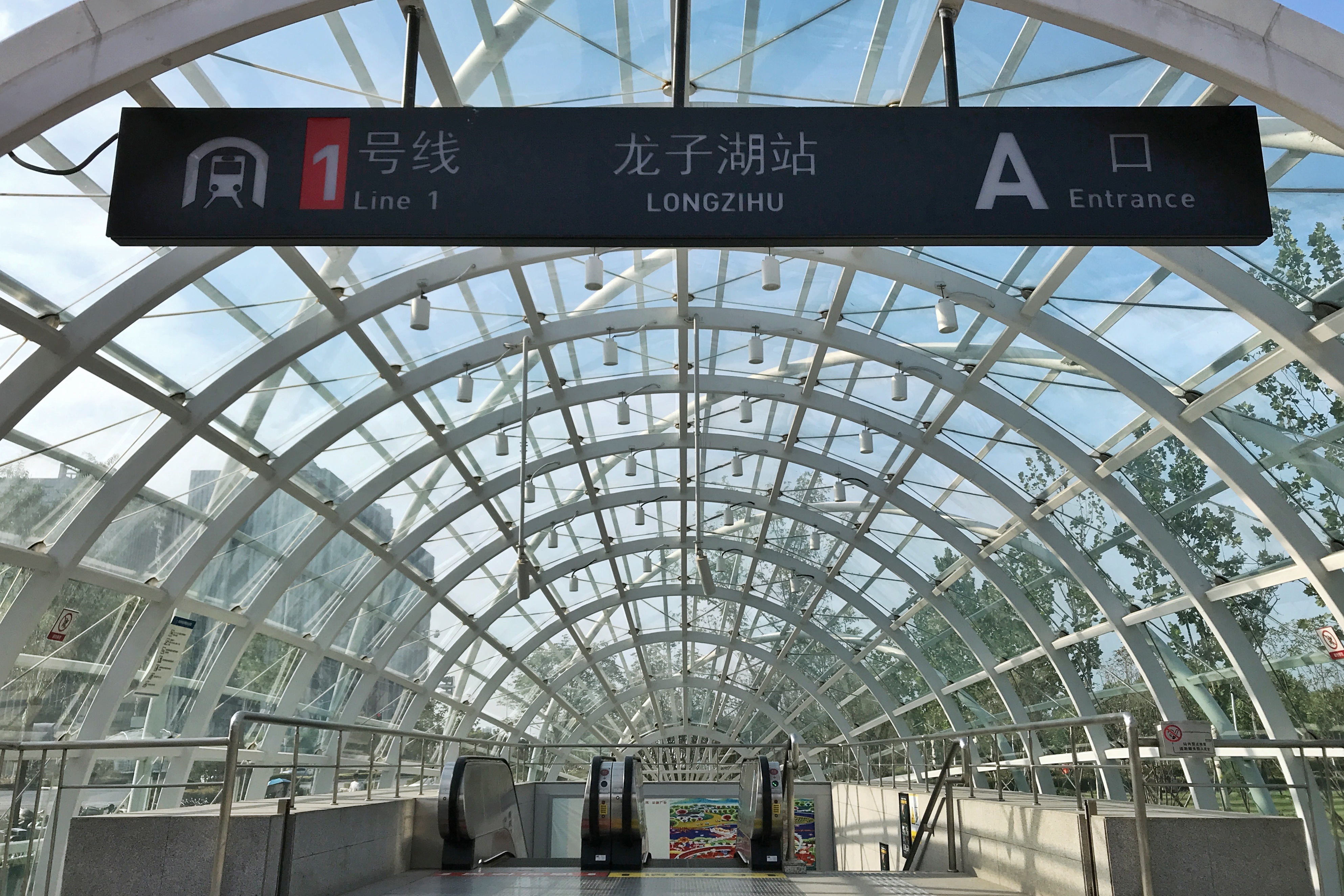 An entrance of Longzihu station on Line 1 Zhengzhou Metro